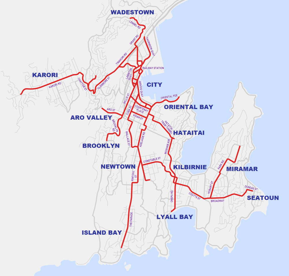 Map of the Wellington tramways network. Created by uploader for Wikipedia.